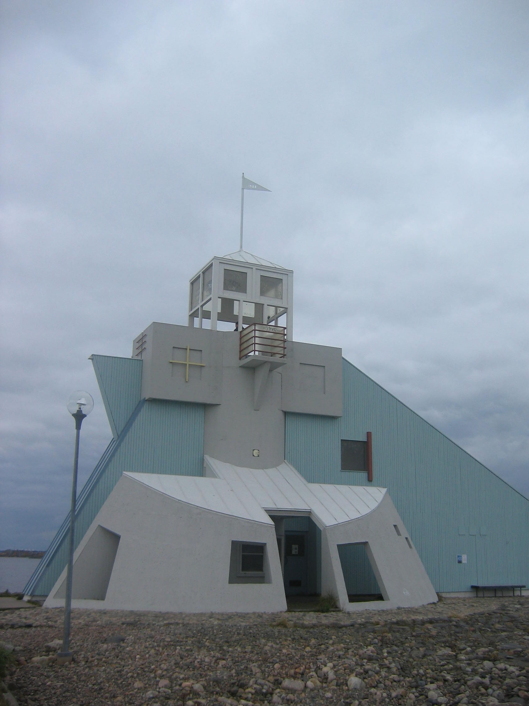 The "light house" in Nallikari, Oulu, Finland.